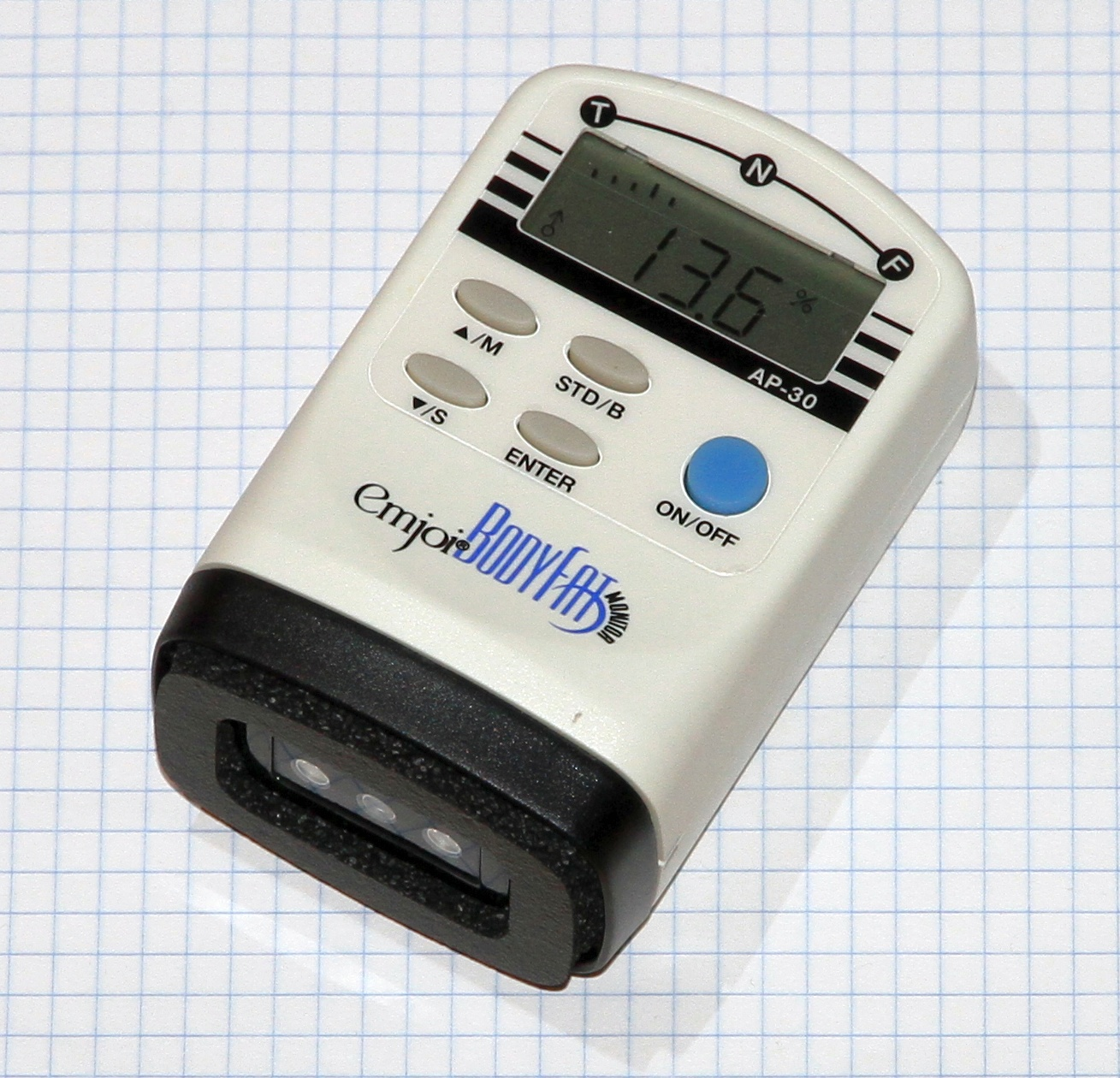 Emjoi AP-30. A near infrared optical body fat monitor. Measures body fat exactly at the point of the body where it's put.